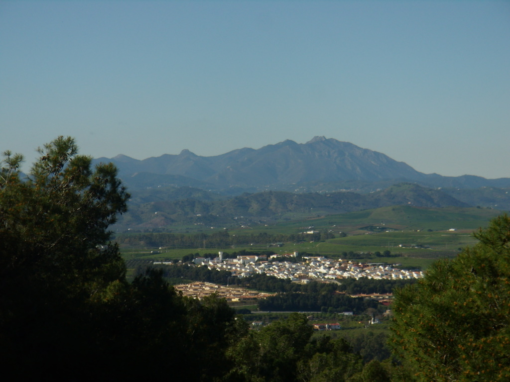 View of Cerralba with Sierra Blanca on the background, Spain.